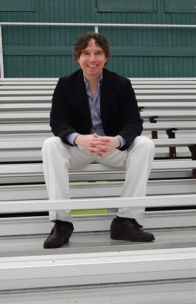 Michael McCann photographed in Concord NH 2013